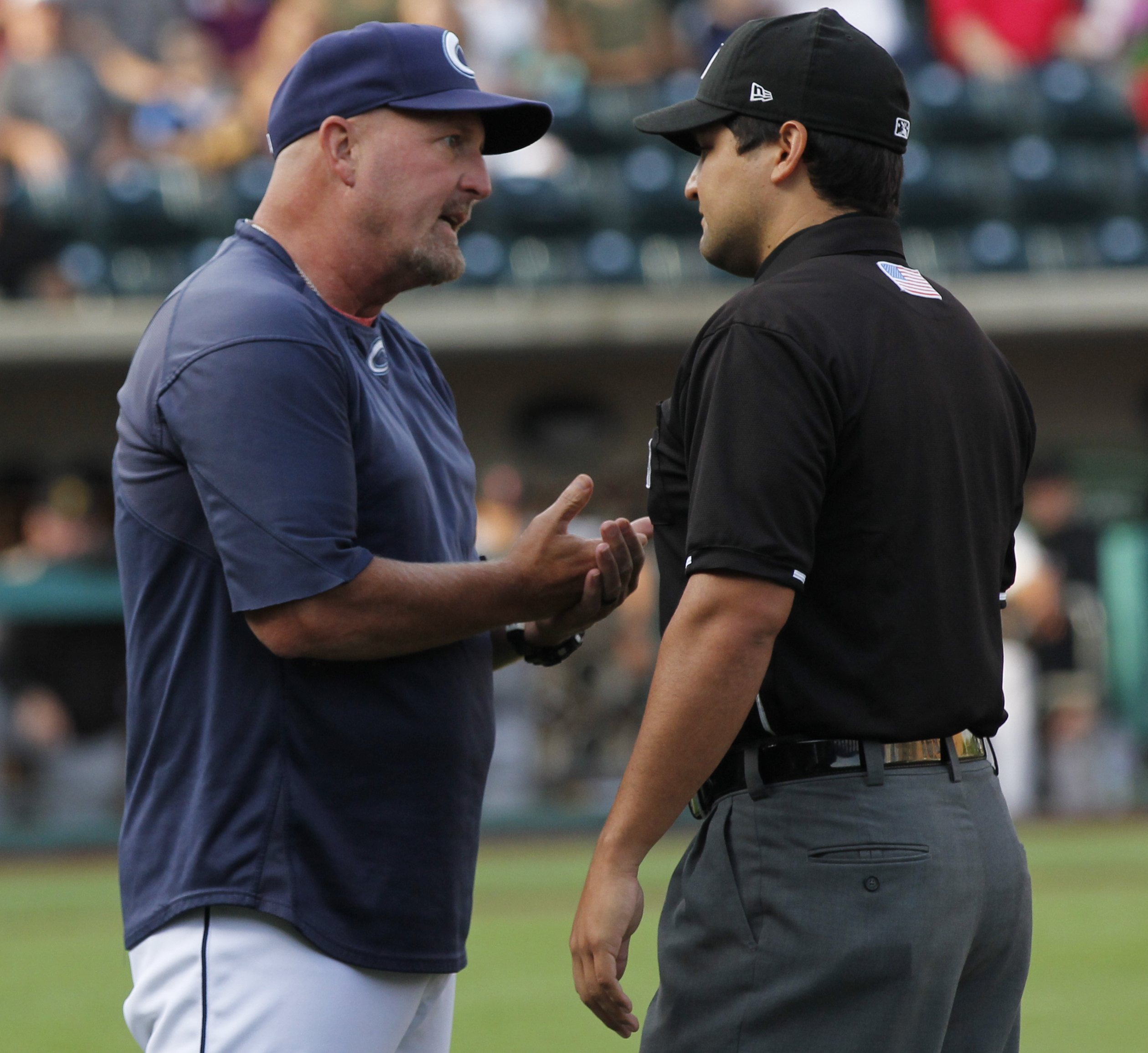 Chris Tremie of the Columbus Clippers arguing with an umpire during a 2018 game at Huntington Park in Columbus, Ohio